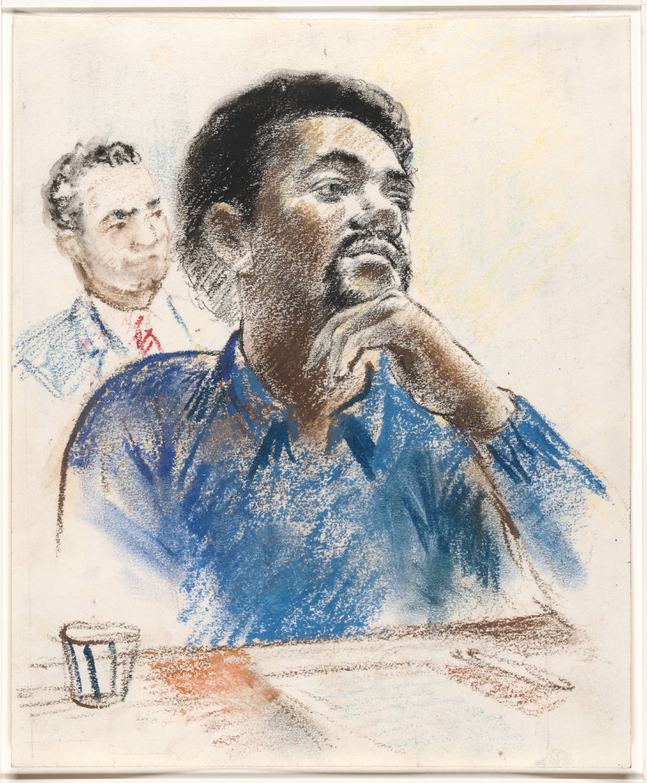 Author/Creator: Seale, Bobby, 1936- Markle, Arnold. Date: 1971. Part of: Robert Templeton Drawings and sketches related to the trial of Bobby Seale and Ericka Huggins, New Haven, Connecticut. Physical Description: 1 drawing color ill., oil pastels 24.6 x 20.3 cm. Folder or box number: Box 3 Subjects: Black Panther Party. African American political activists. African Americans. Black militant organizations. Black power. Political activists. Trials (Conspiracy) Trials (Kidnapping) Trials (Murder) Connecticut. Superior Court (New Haven County) Genre/Form: Drawings Portraits Pastels (Visual works) Cite as: Yale Collection of American Literature, Beinecke Rare Book and Manuscript Library Repository: Beinecke Rare Book & Manuscript Library, Yale University Bibliographic Record Number: 2026730 Call Number: JWJ MSS 33 View our Record: Permalink Flickr data on 2011-08-26: License: CC BY-SA 2.0 User: Beinecke Library